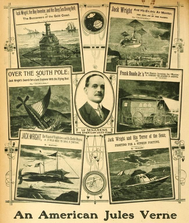 Luis Philip Senarens, the American Jules Verne, Science and Invention, Volume YIII, #6, October 1920